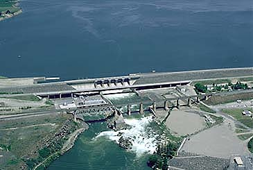 Photograph of American Falls United States Bureau of Reclamation Dam